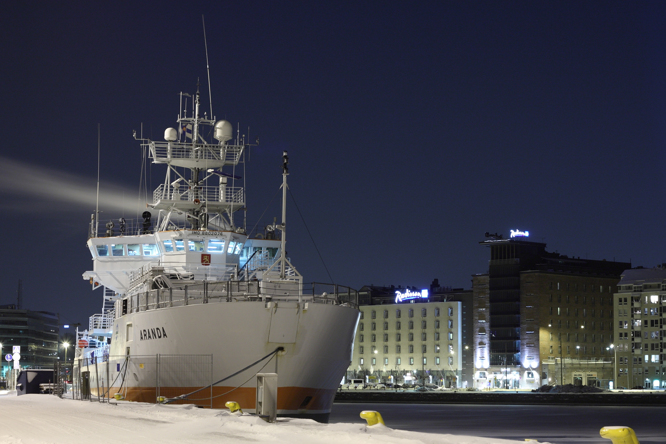 Research Vessel Aranda in Helsinki, Finland. The steam or smoke comes from the ship. It was around −14 degrees centigrade.